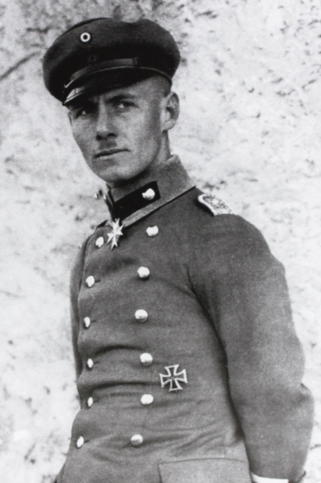 Leutnant Erwin Rommel in the Italian front, 1917